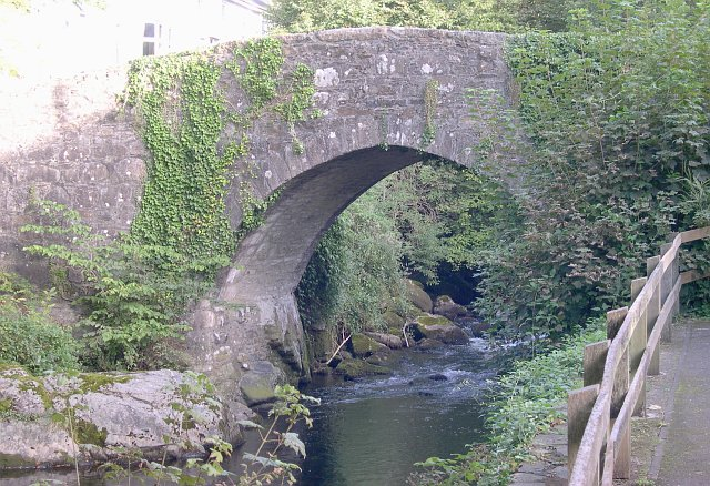 The old bridge over the River Erme at Ivybridge.